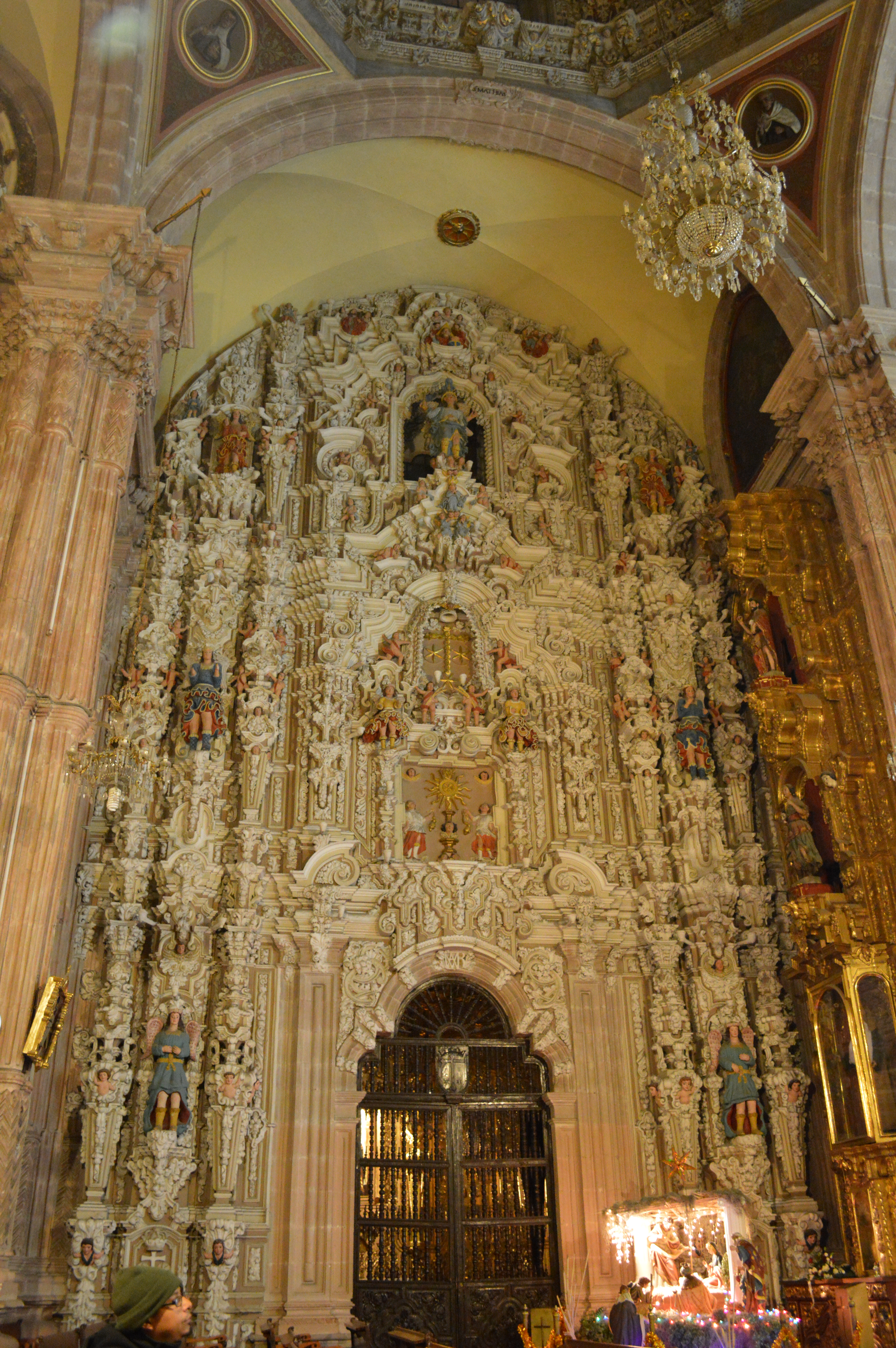 Altarpiece inside the Carmelite Church in San Luis Potosi, Mexico